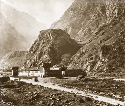 Tamar's Fortress in Dariali Pass.